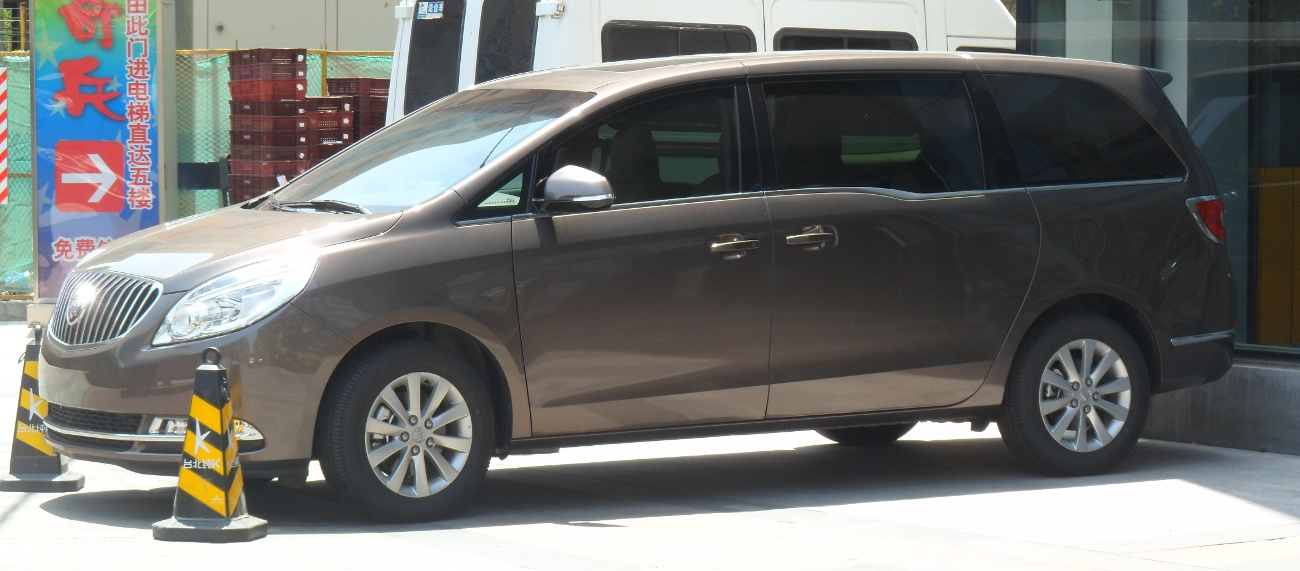 Buick GL8 II photographed in Shanghai, China.